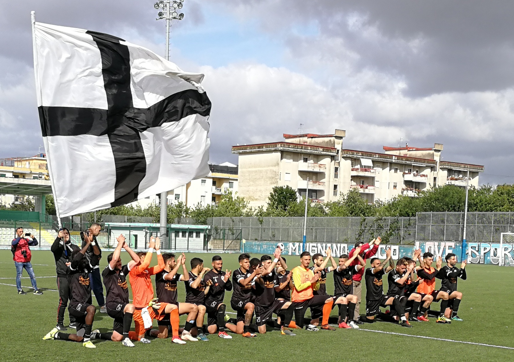 Football team of Savoia